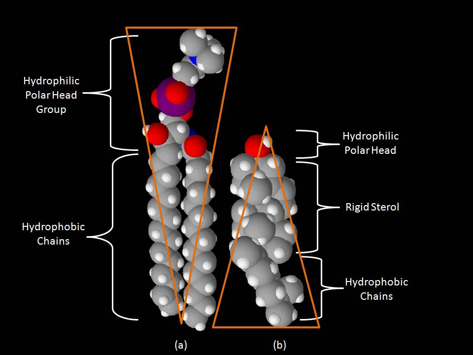 Space-filling models of sphingomyelin (a) and cholesterol (b). This figure shows the inverted cone-like shape of a common sphingolipid (sphingomyelin) and the cone-like shape of cholesterol based on the area of space occupied by the hydrophobic and hydrophilic regions.